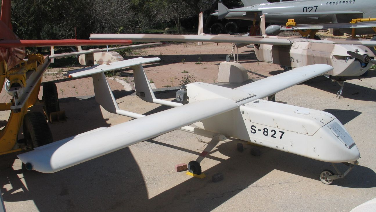 Description: IAI/Tadiran Mastiff III UAV at Muzeyon Heyl ha-Avir, Hatzerim airbase, Israel. 2006. Source: Photo by me, User:Bukvoed.